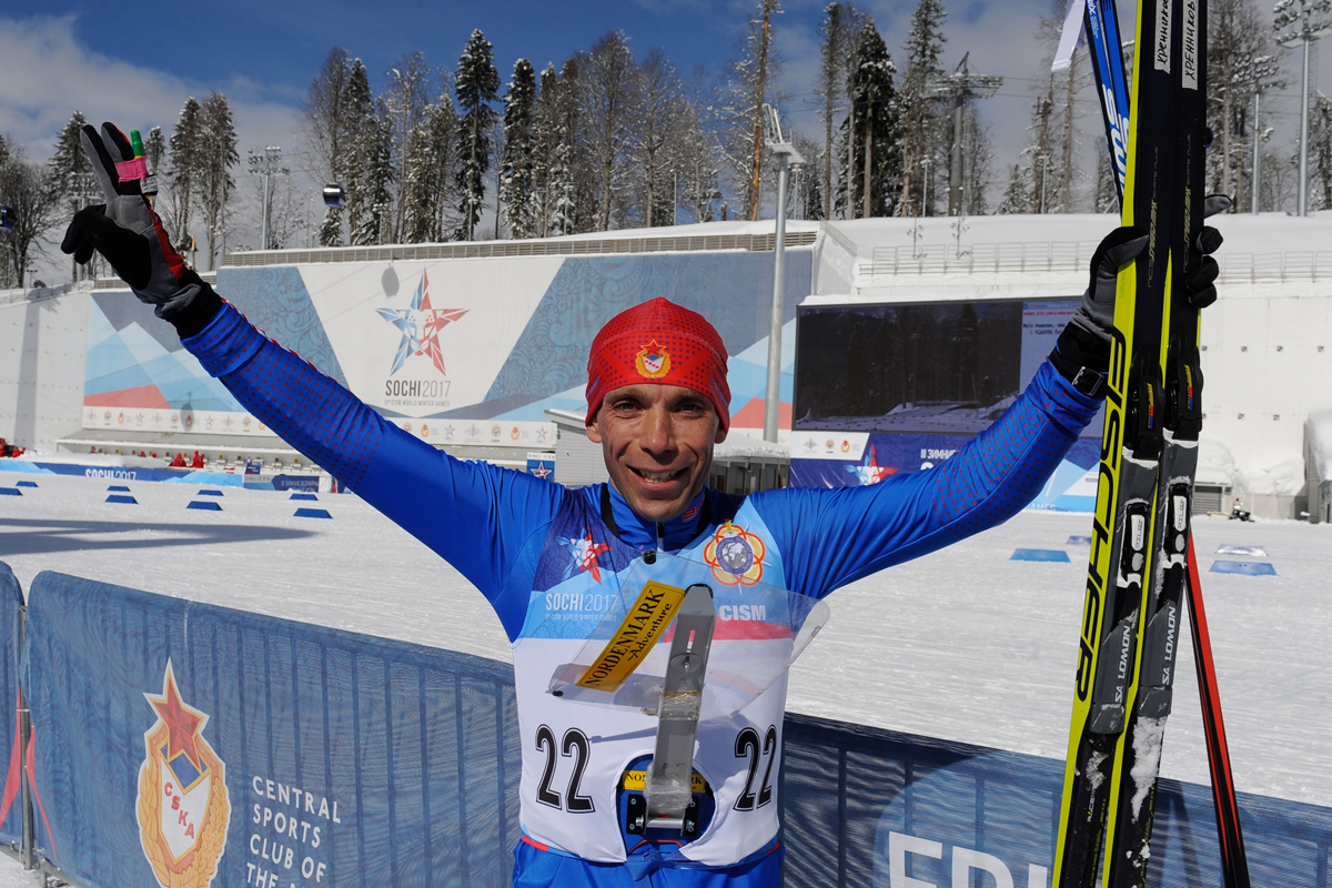 ХРЕННИКОВ Эдуард (Россия). Лыжное ориентирование, спринт, мужчины. III Зимние Всемирные военные игры. Лыжно-биатлонный комплекс «Лаура», Сочи, Россия. 26 февраля 2017. Фото Alexander Fedorov/CISM2017KHRENNIKOV Eduard (Russia). Ski Orienteering, Sprint, Men .3rd CISM World Winter Games. Laura Cross-Country Ski&Biathlon Centre, Sochi, Russian Federation. February 26, 2017. Photo by Alexander Fedorov/CISM2017